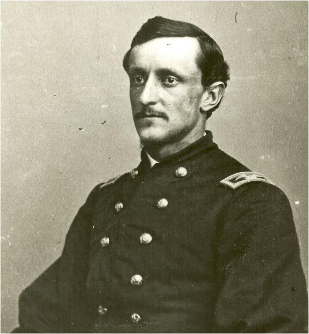 photo of Thomas Hamlin Hubbard (1838-1915)